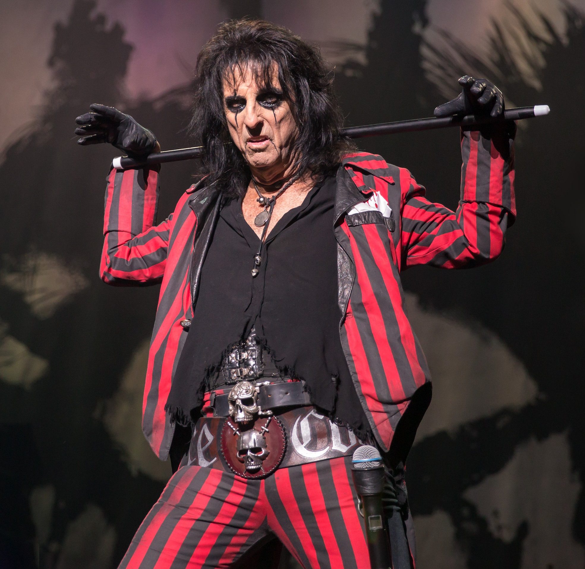 Alice Cooper performing at the Majestic Theatre in San Antonio, Texas in 2015